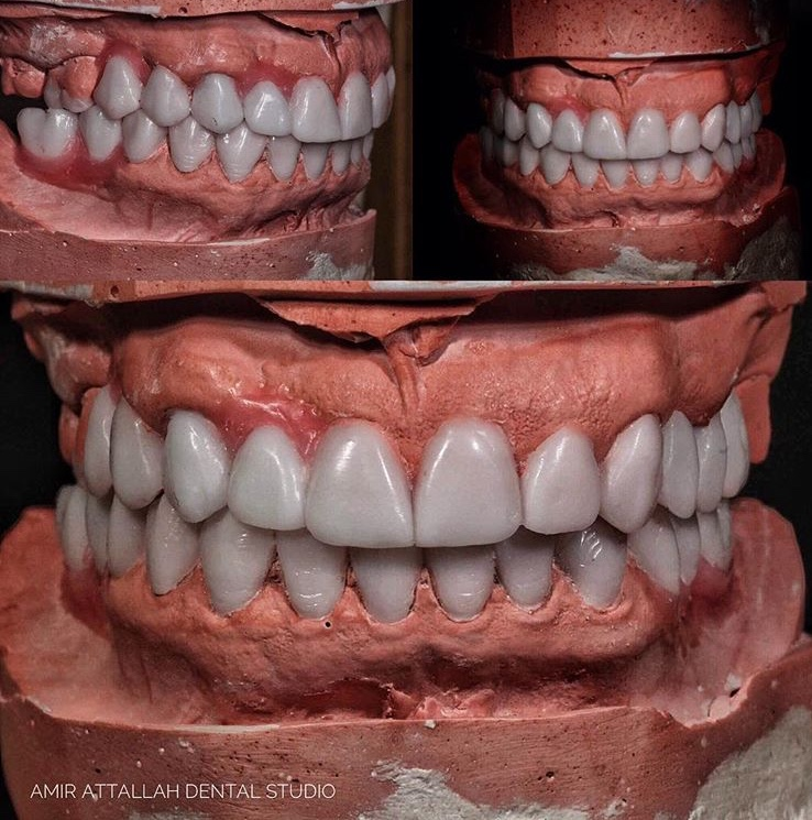 The use of wax mockup for treatment planning